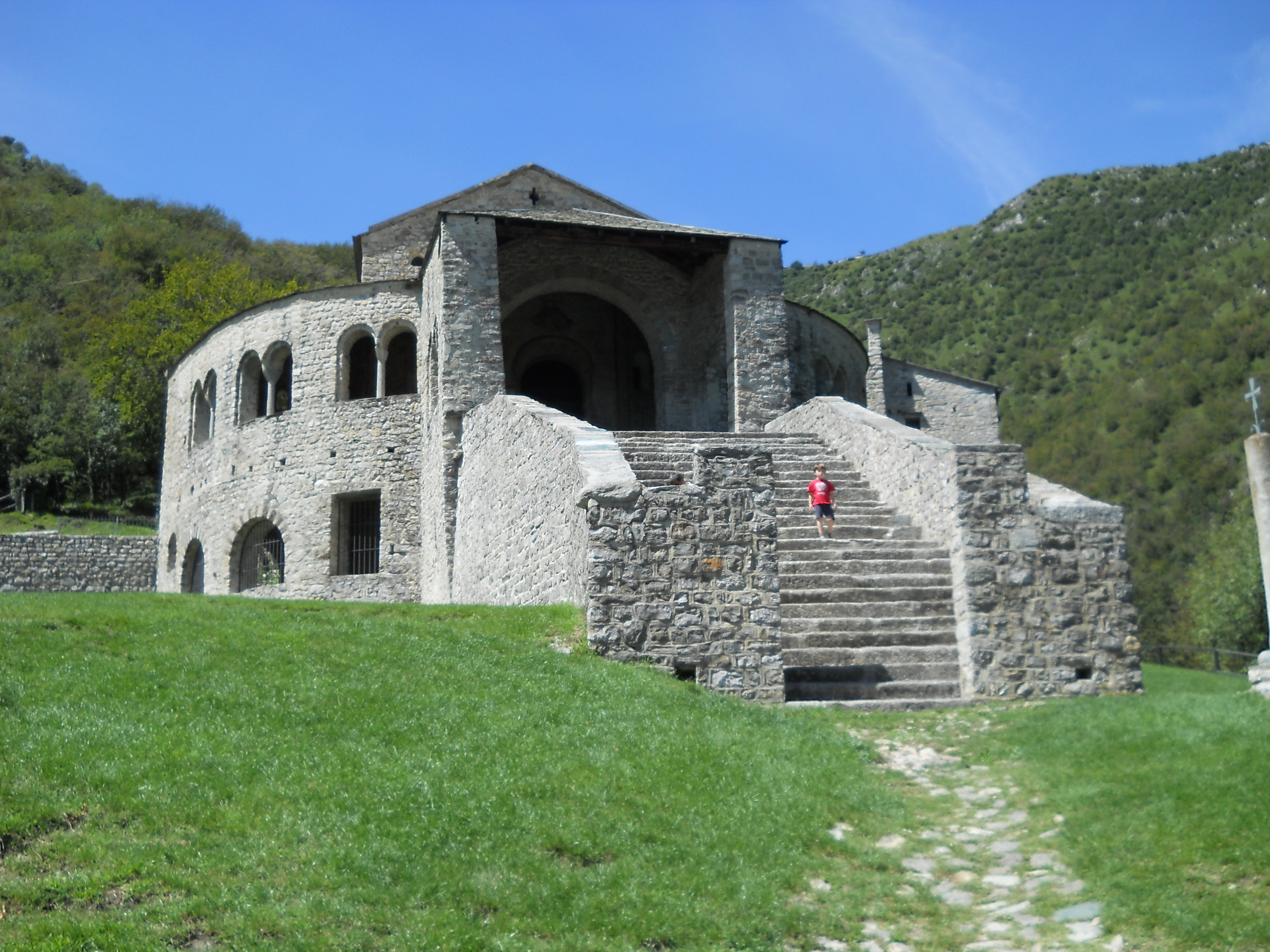 San Pietro al Monte basilica, Civate, Lecco, Italy